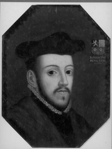 Robert of Bergen, prince-bishop of the Bishopric of Liège